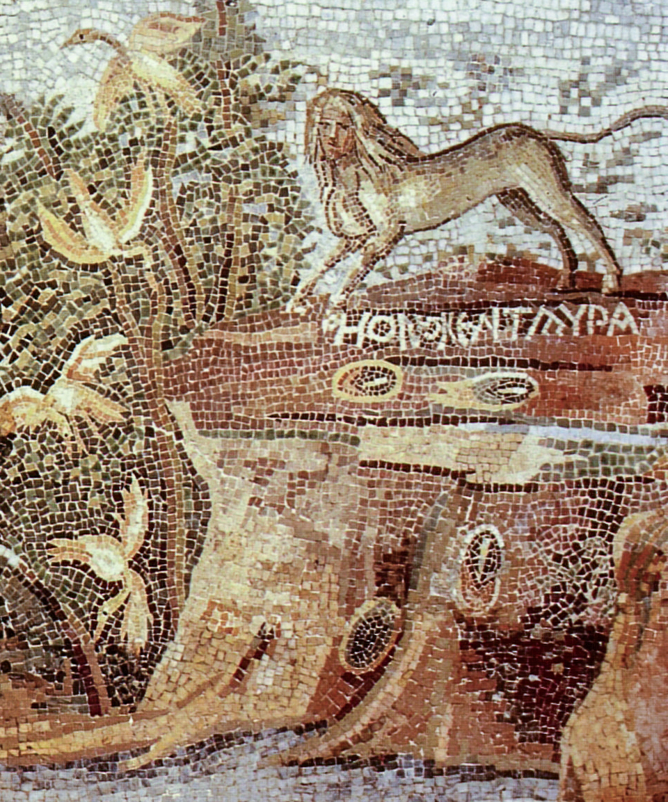 Detail of Nile mosaic from Palestrina (section 1b). Museo Nazionale Palestrina, Italy.